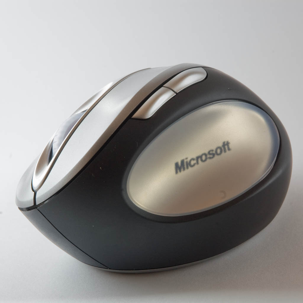 Microsoft Natural Wireless Laser Mouse 7000, example of an 5 buttoned asymmetrical mouse.